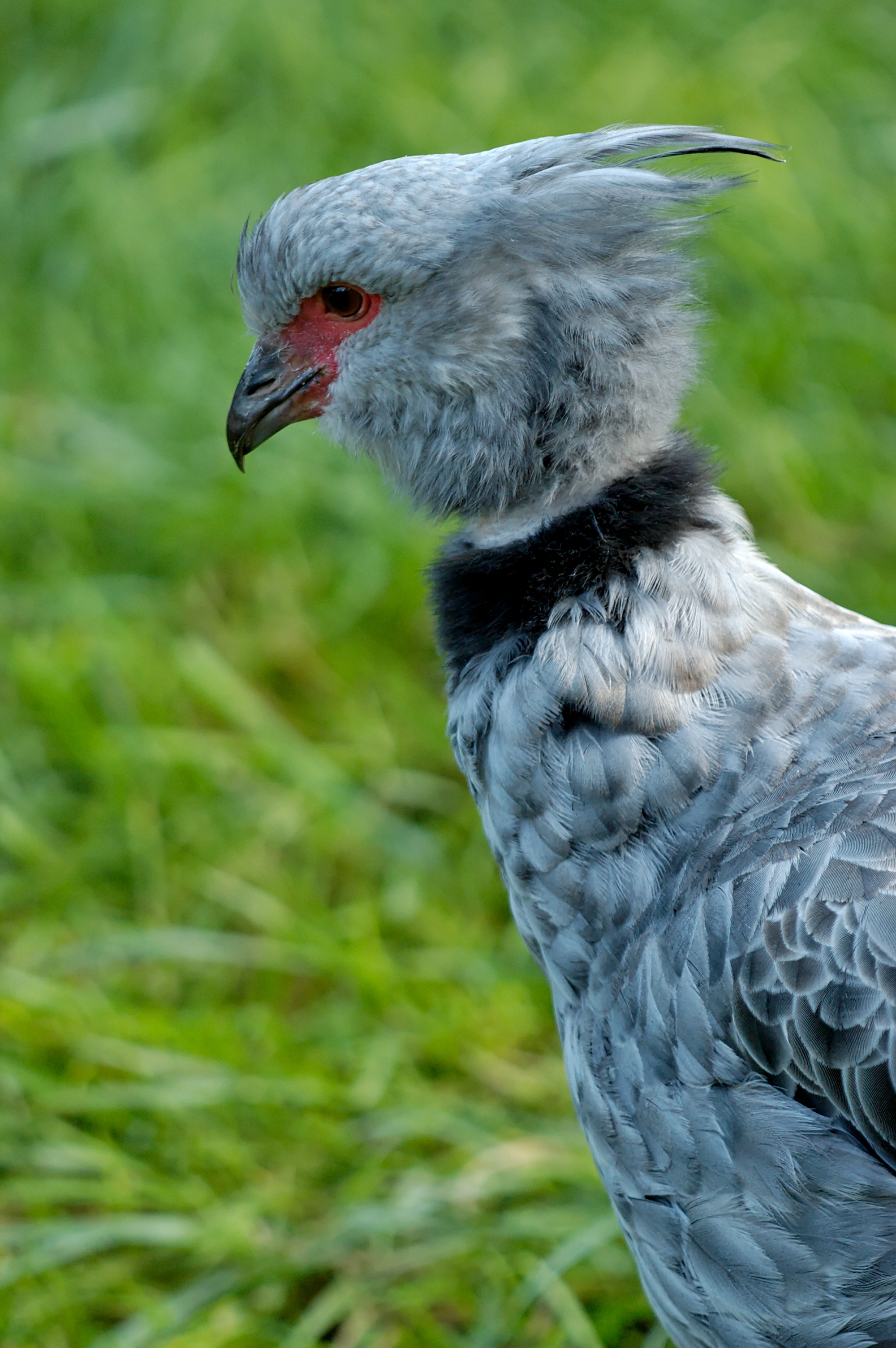 Head of a Southern Screamer (Chauna torquata). Menagerie of the Jardin des Plantes in Paris (France).